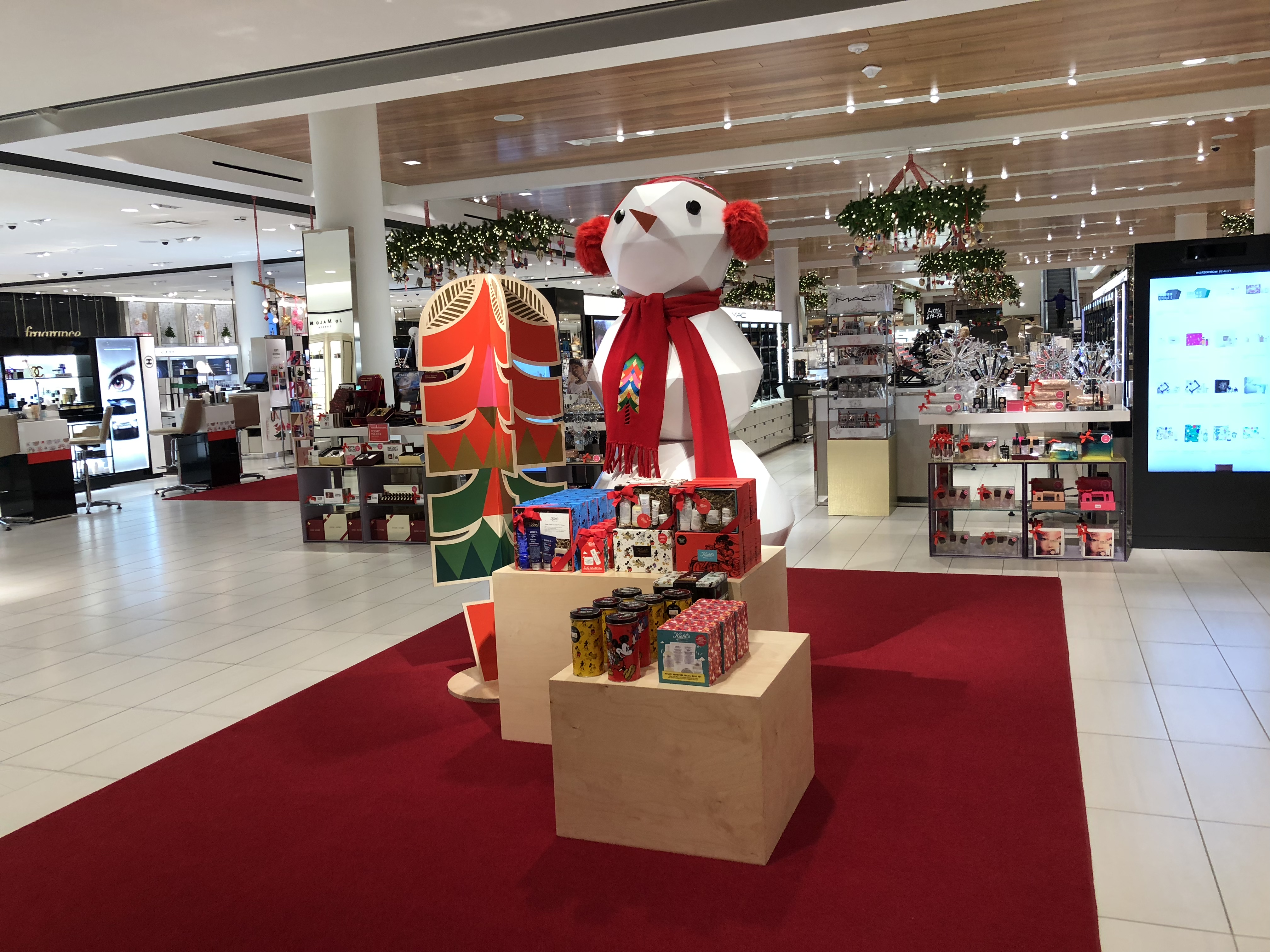 Macy's at Christmas - Ridgedale Mall